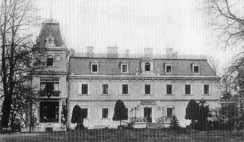 Marquardt palace near Potsdam, Germany. situation from about 1900.